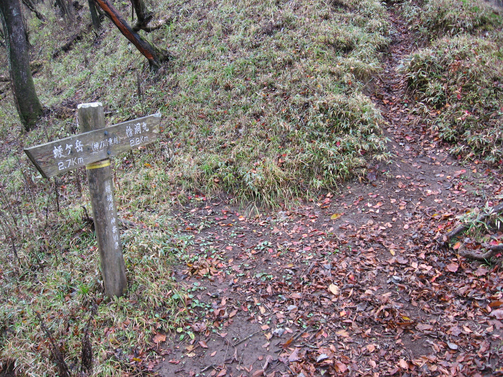 Kannogawa nokkoshi ("Kannogawa Pass") in the Tanzawa Mountains, Japan